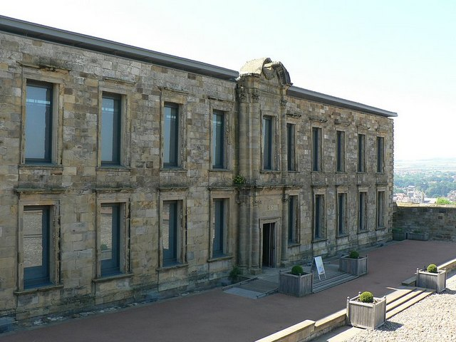 Whitby Abbey Visitor Centre